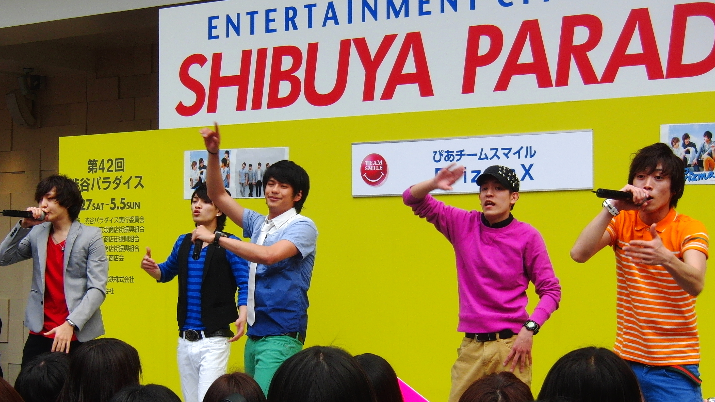 PrizmaX, a music group of Japan.